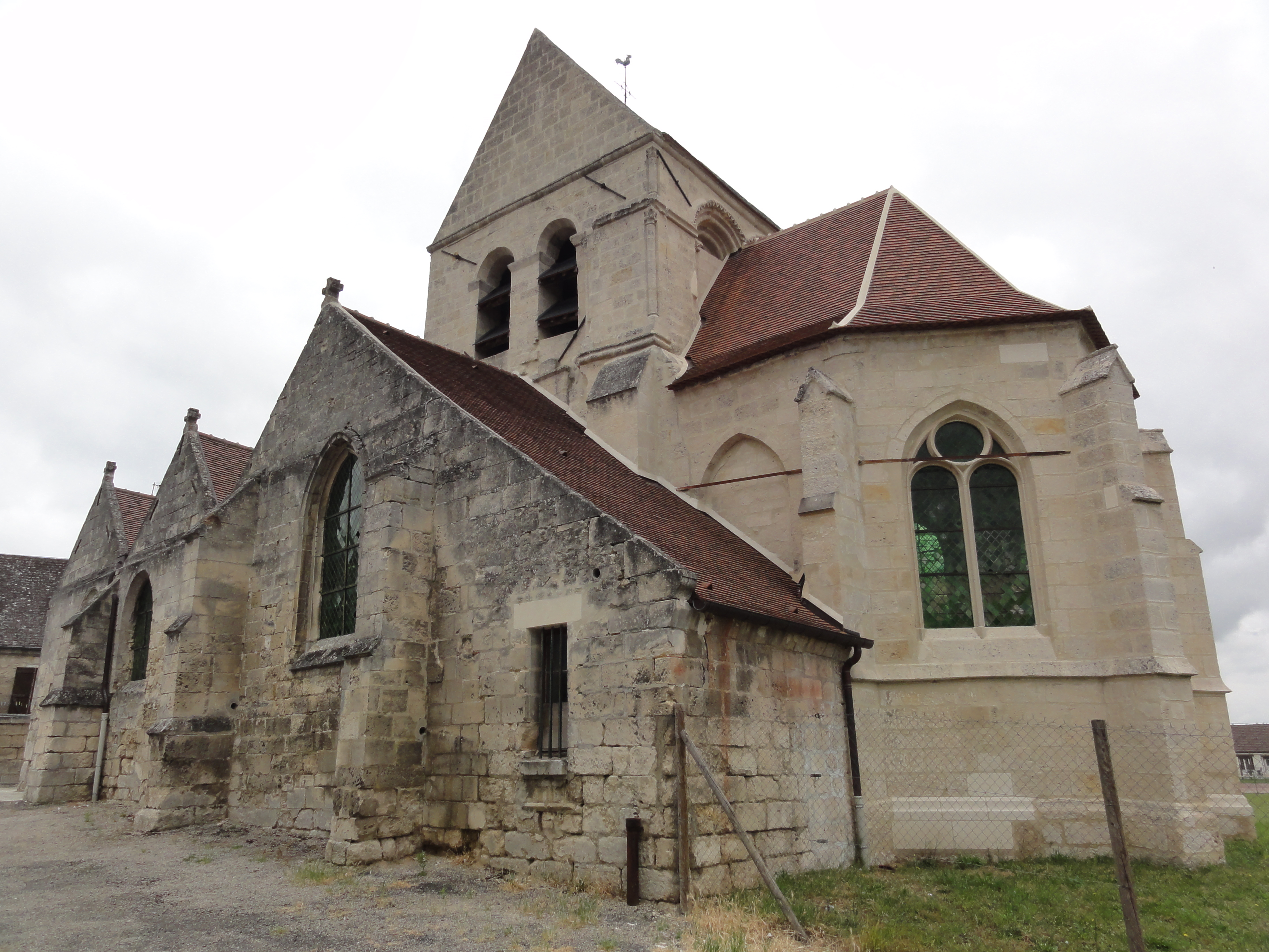 Billy-sur-Aisne (Aisne) église Saint-Léger